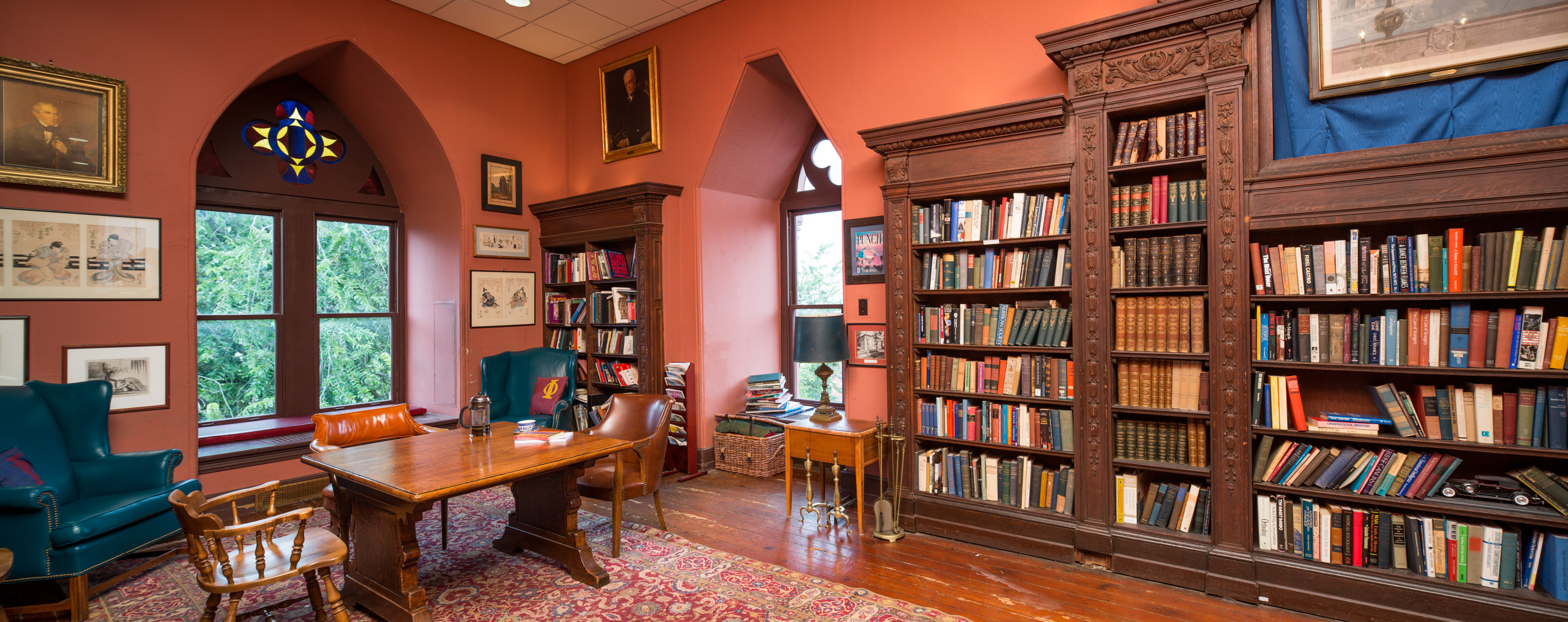 Self dubbed the William Henry Harrison Presidential Library, the Philomathean Library features books donated by its members.